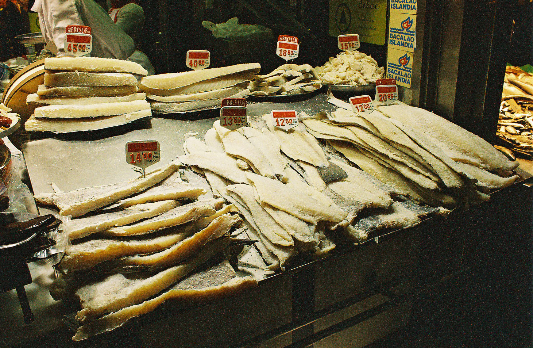 Klippfish, Bacalao in store Barcelona.